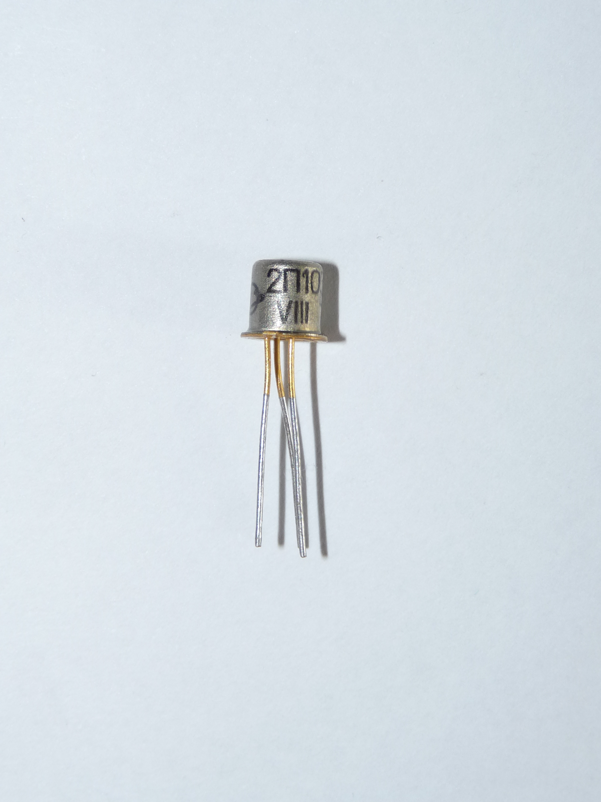 USSR P-FET transistor 2П103Б